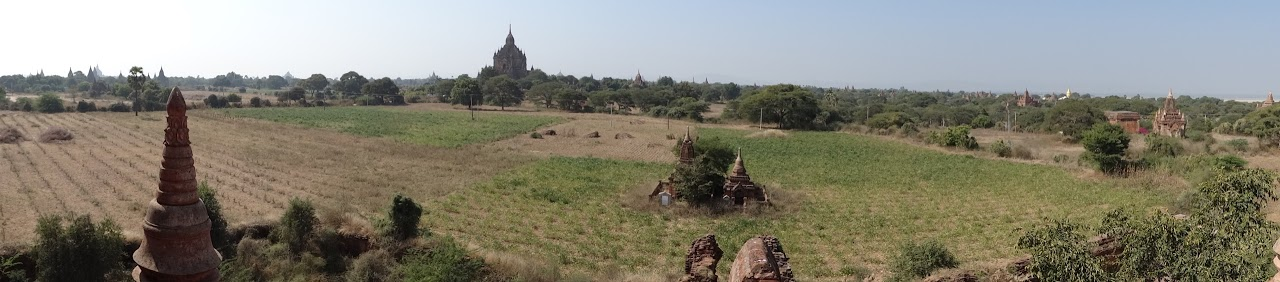 Bagan panoramic view